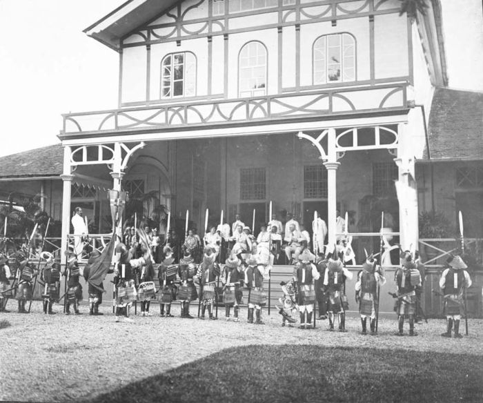 A group of men dressed as samurai standing before Governor General Mr. J.P. count of Limburg Stirum during his visit to West Borneo.